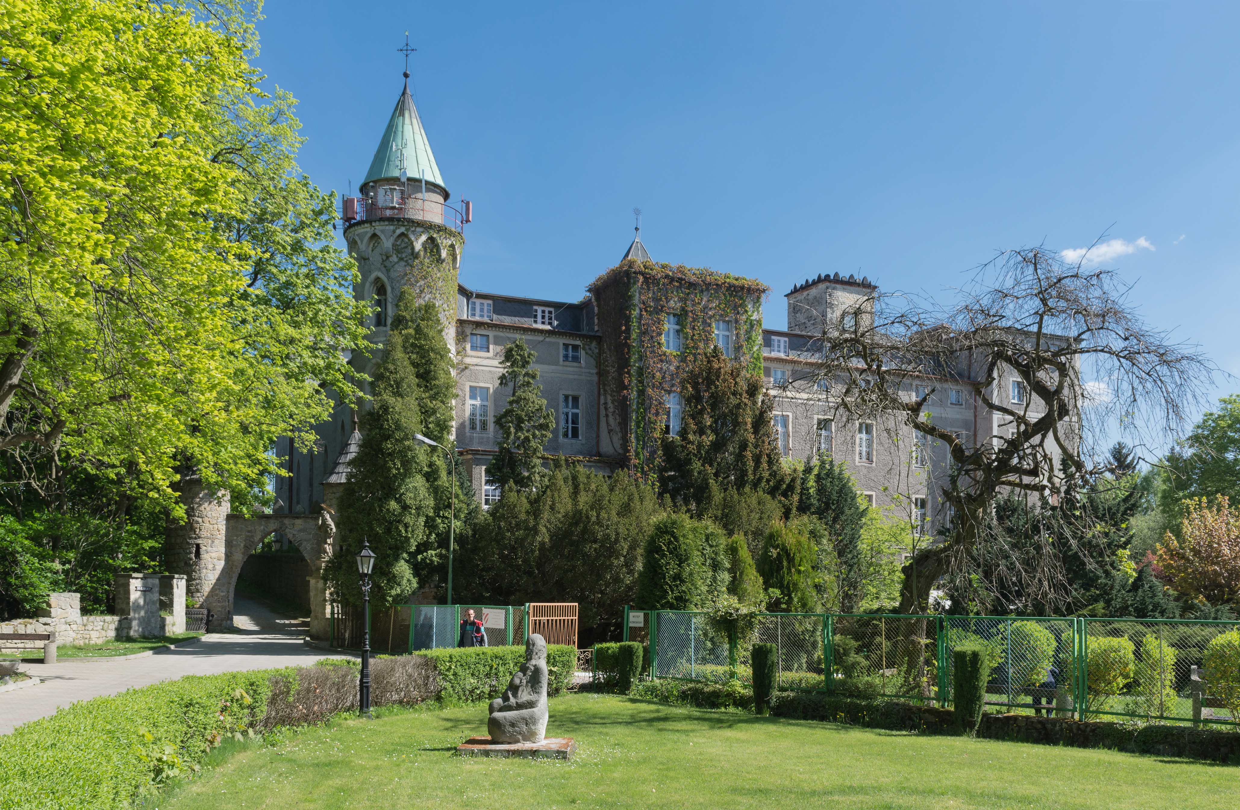 Leśna castle in Szczytna